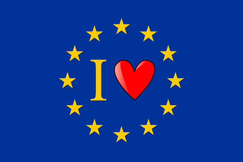 The Europe flag with a heart which means: "I love Europe".